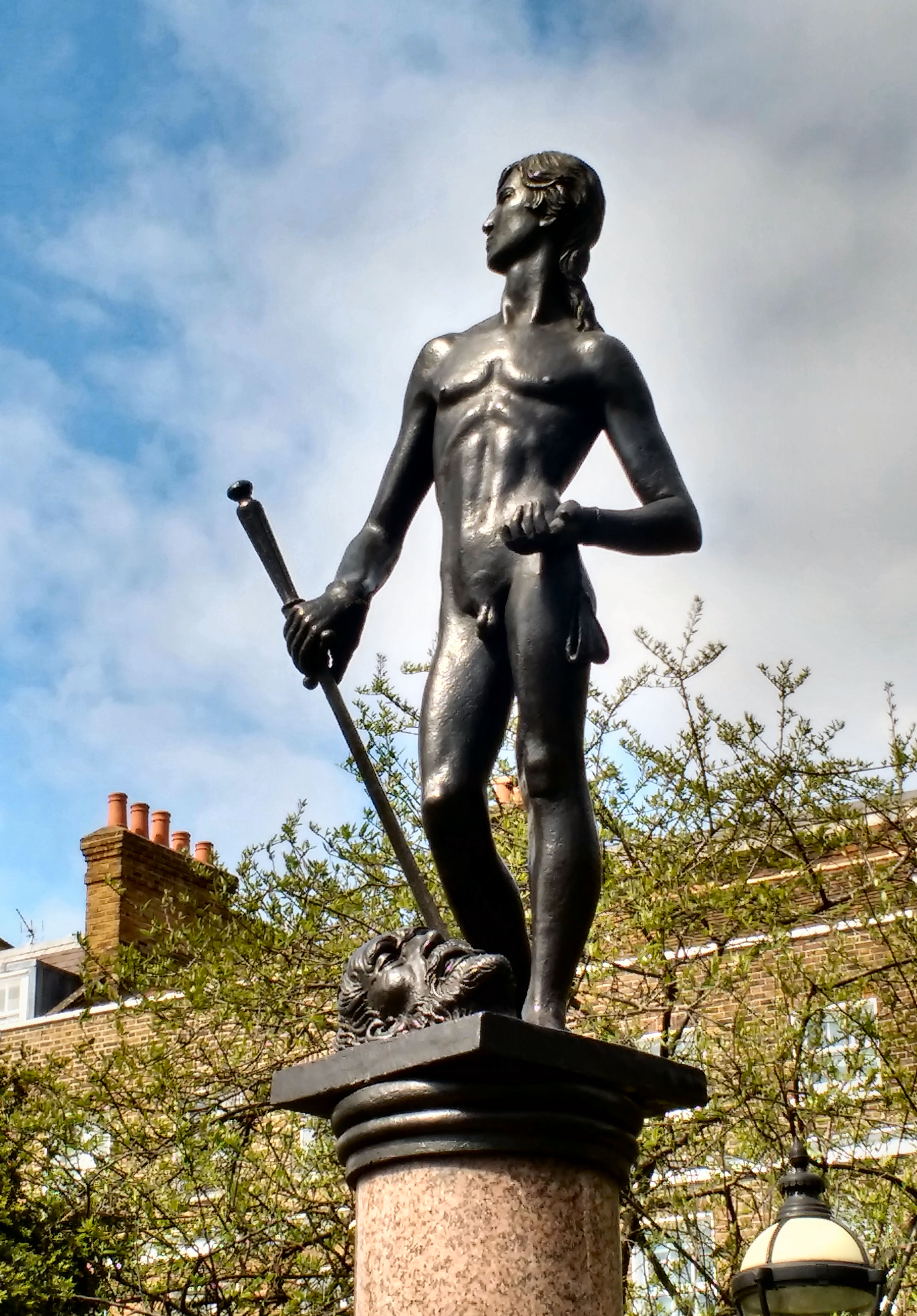 The Boy David by Edward Bainbridge Copnall, Chelsea Embankment, Cheyne Walk. Machine Gun Corps Memorial. Fibreglass replacement after the original by Francis Derwent Wood was stolen in 1963.